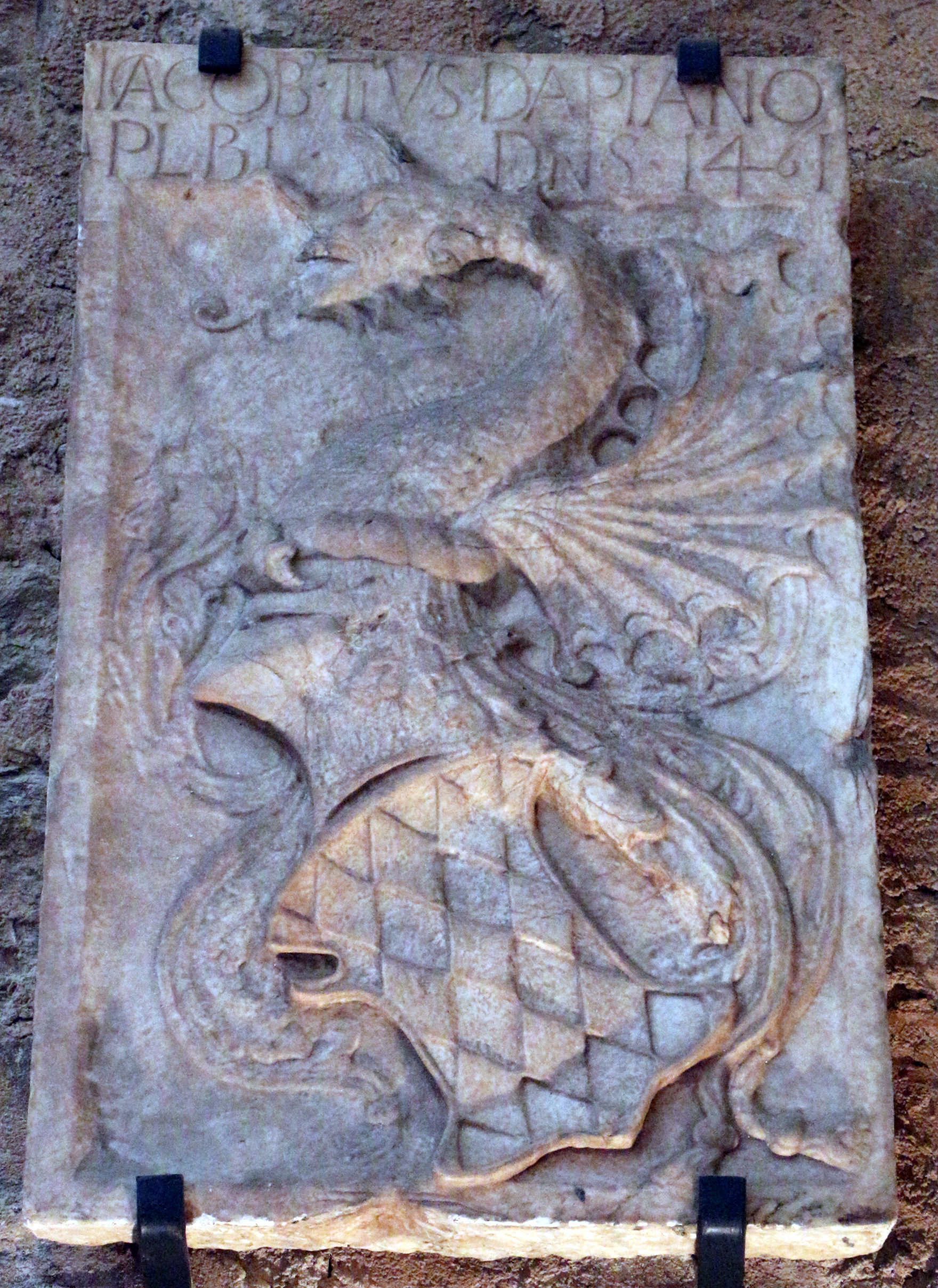 Castello di Piombino